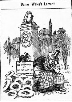 Cartoon originally published in the Evening Express (Cardiff), 1896. Art and commentry on the death of cycilist Arthur Linton by Joseph Morewood Staniforth. Dame Wales's Lament